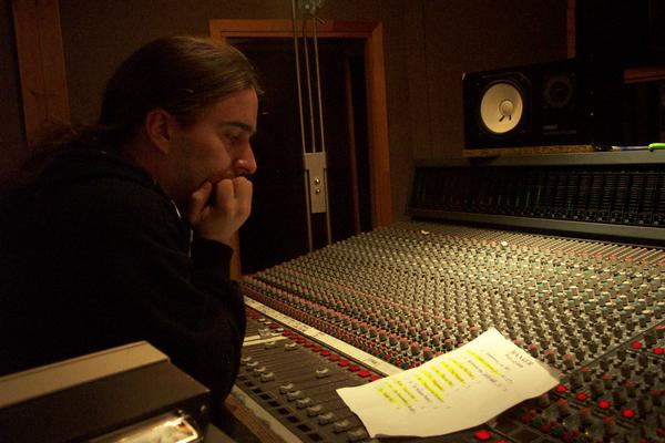 Jean-Francois Dagenais (producer, Sound Engineer, Mixer)